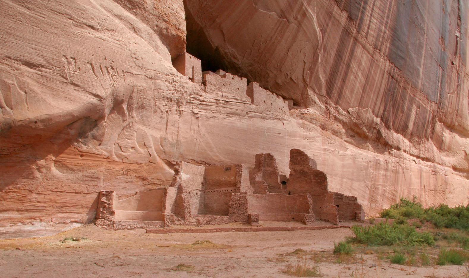 Canyon de Chelly National Monument, Arizona, USA. White House Ruin